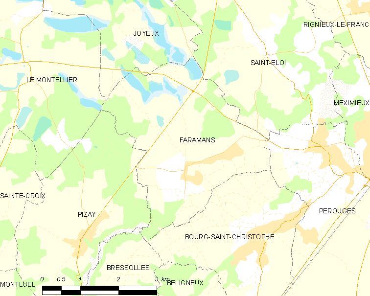 Map of French commune: Faramans Map commune FR insee code 01156.png